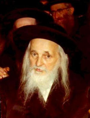 A 1958 photo of Rabbi Joel Teitelbaum in the Central Rabbinical Congress's annual convocation. Released anonymously without copyright notice.